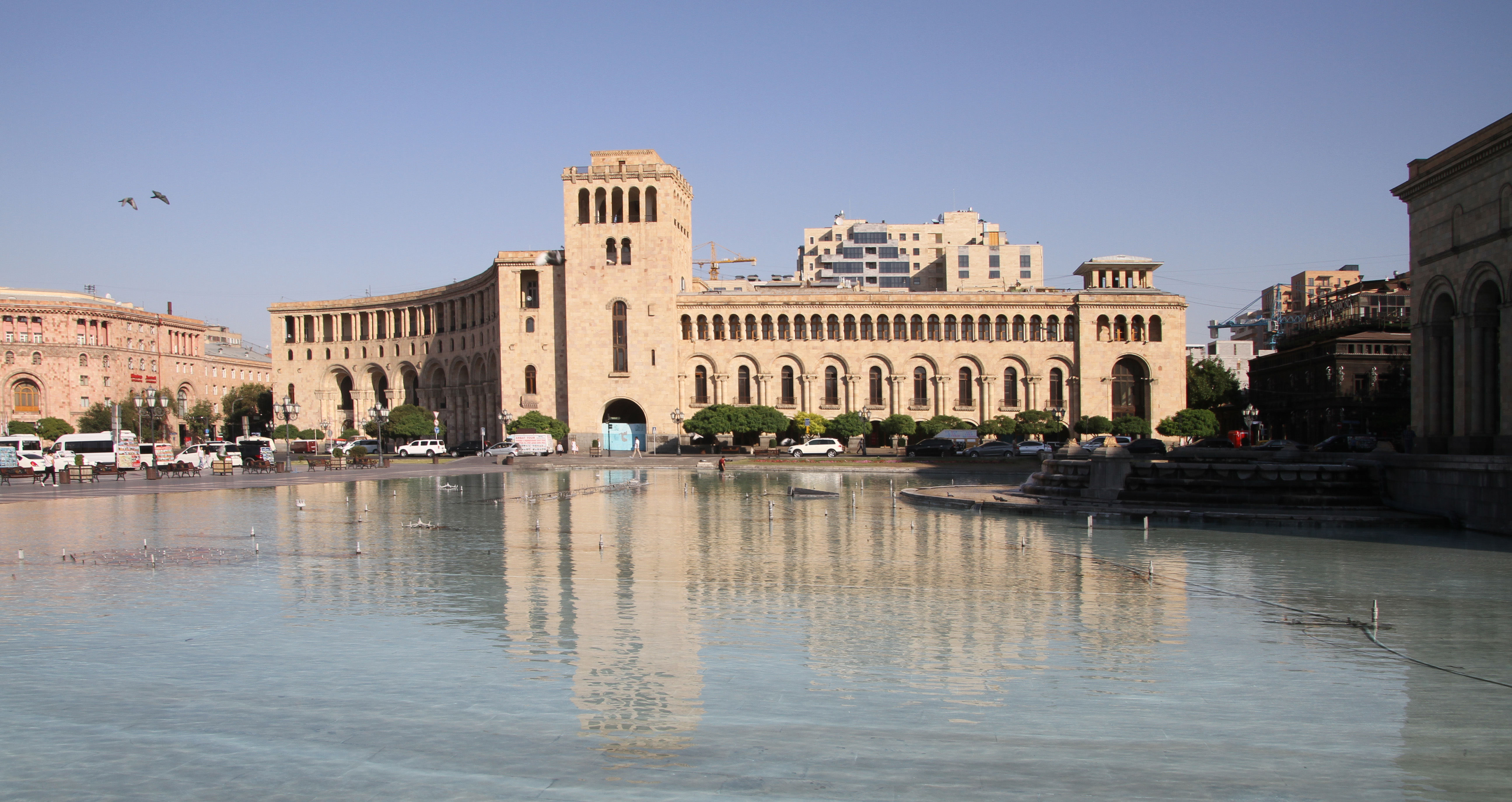 Republic Square of Yerevan